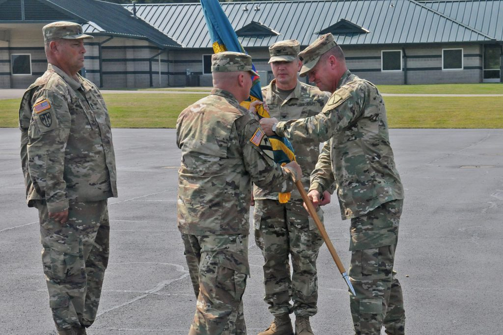 Maj. Gen. Stephen Hogan passes the garrison colors of the Wendell H. Ford Regional Training Center to Lt. Col. Joe Lear during a change of command ceremony in Greenville, Ky., Sept. 16, 2017. Lear assumed command from Col. Steven King who held the position since 2013.